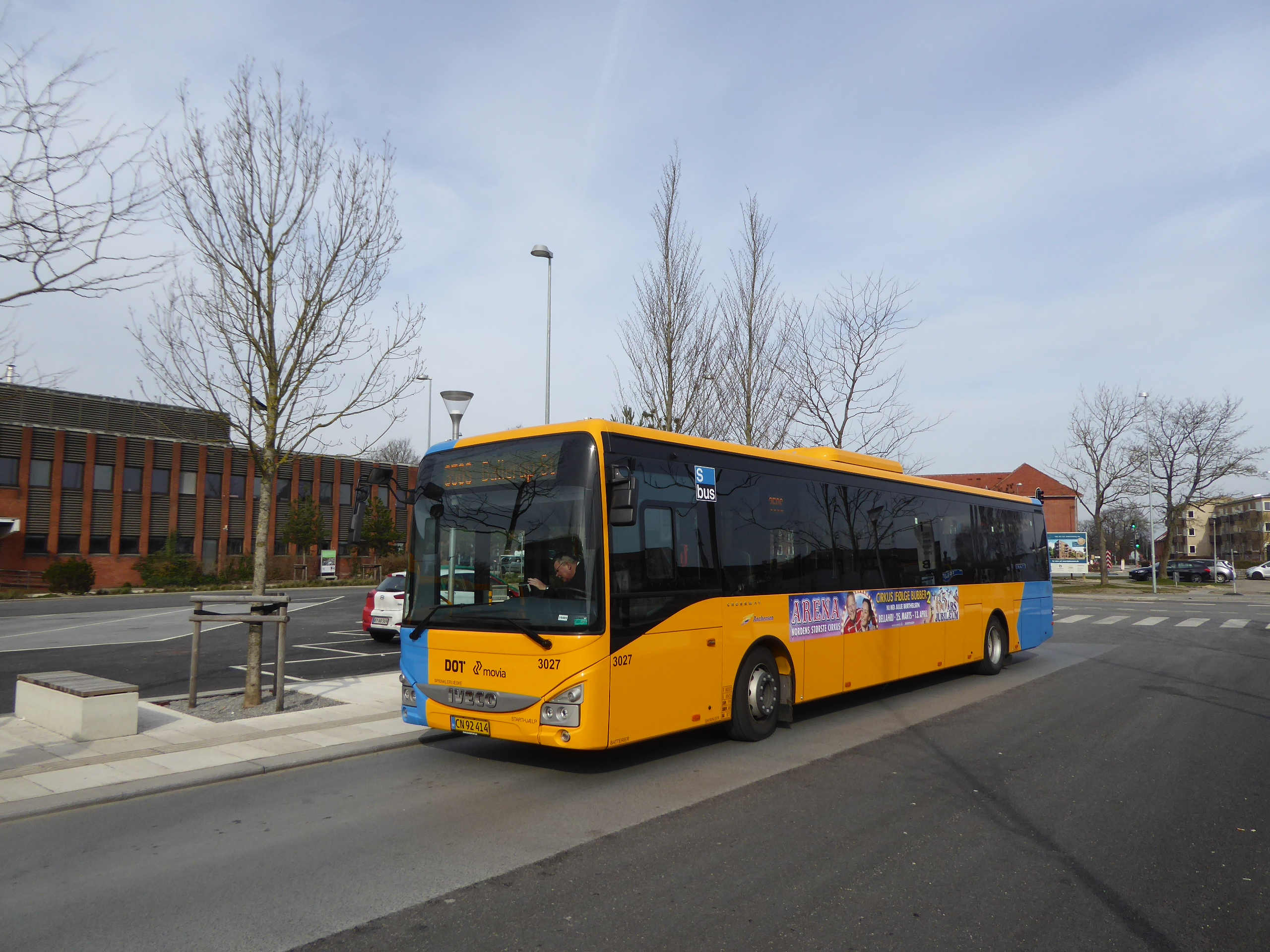 Movia bus line 350S at Ballerup Station in Copenhagen. The line got new Iveco Crossway LE buses in december 2019.